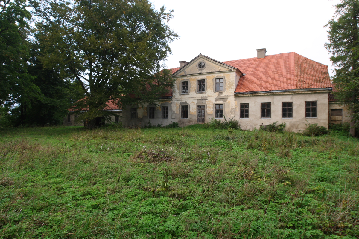 Matsalu manorhouse in Matsalu Village, Lääne County, Estonia